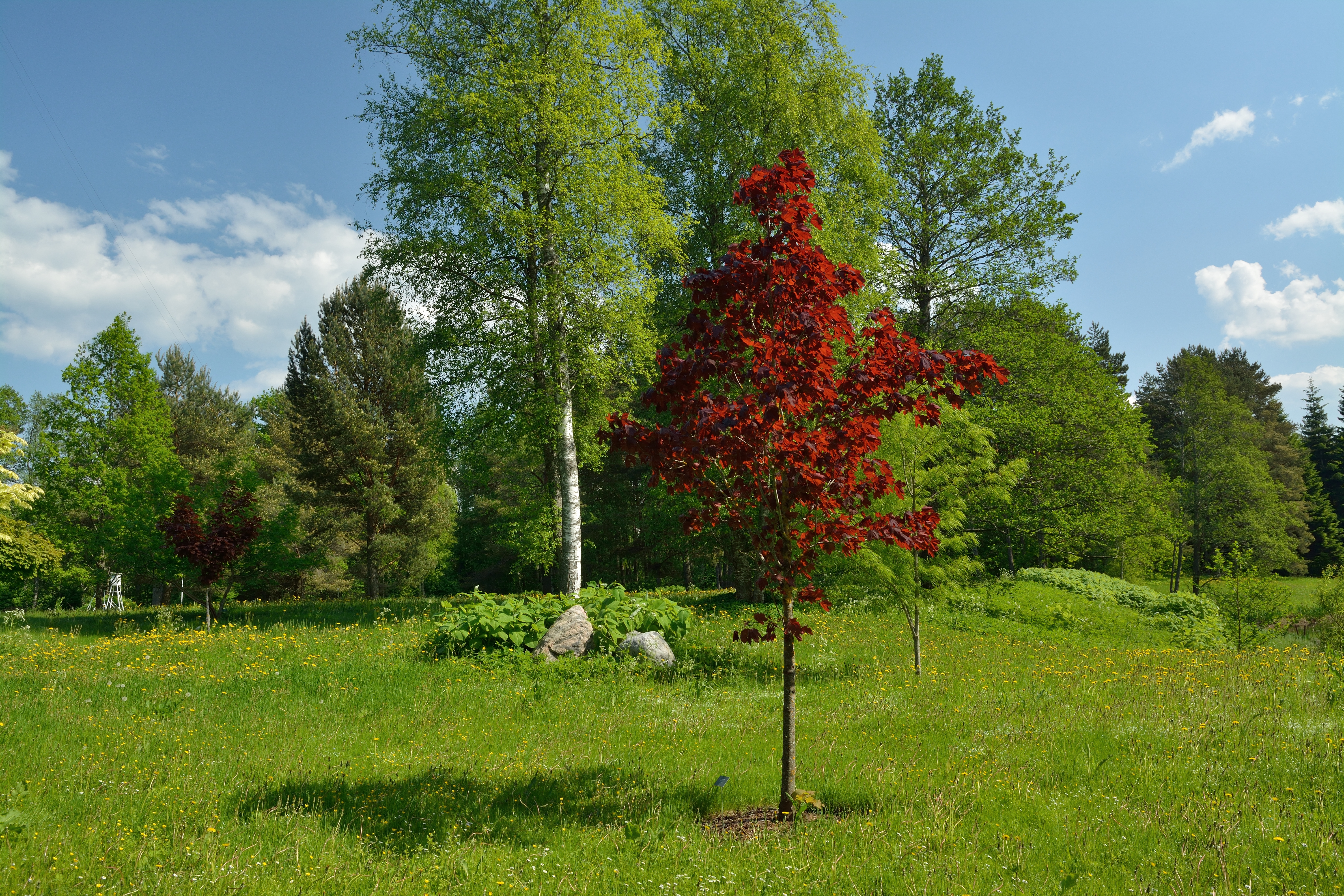 Acer platanoides 'Faassens black' in Tallinn Botanical Garden